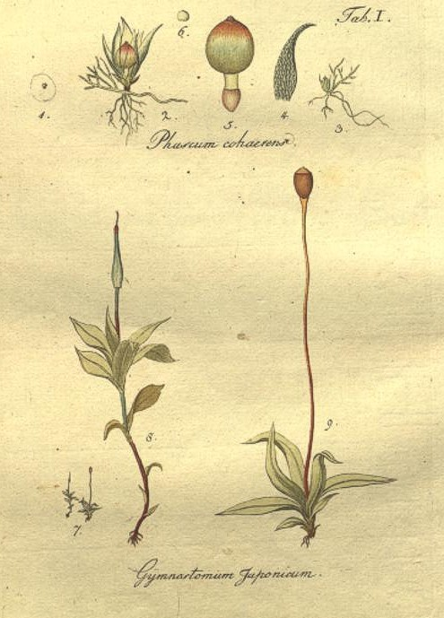 Plate from "Species Muscorum Frondosorum", Phascum cohaerens and Gymnostomum japonicum